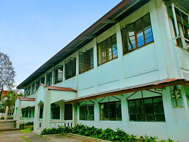 Eugenio Lopez Memorial Hall on the main campus of Central Philippine University